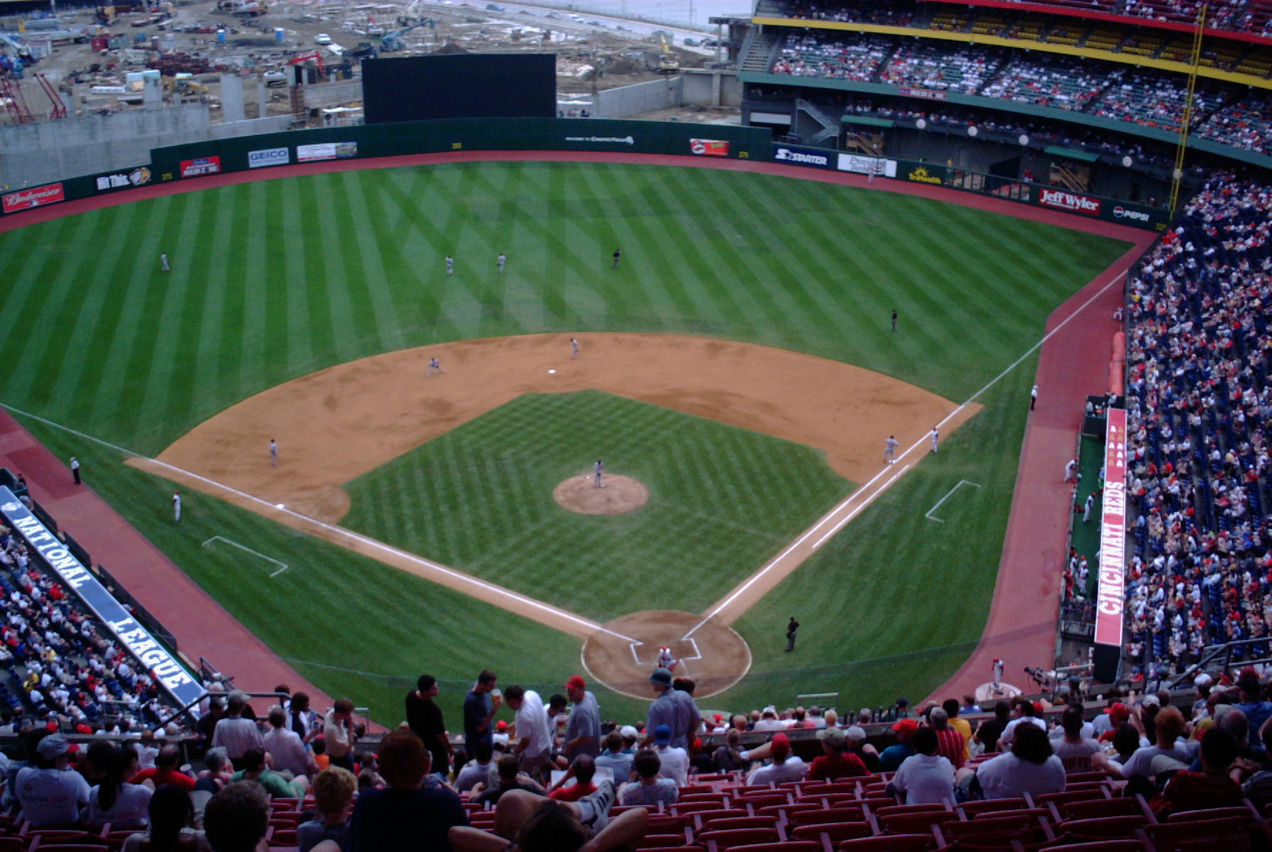 Cinergy Field in 2001